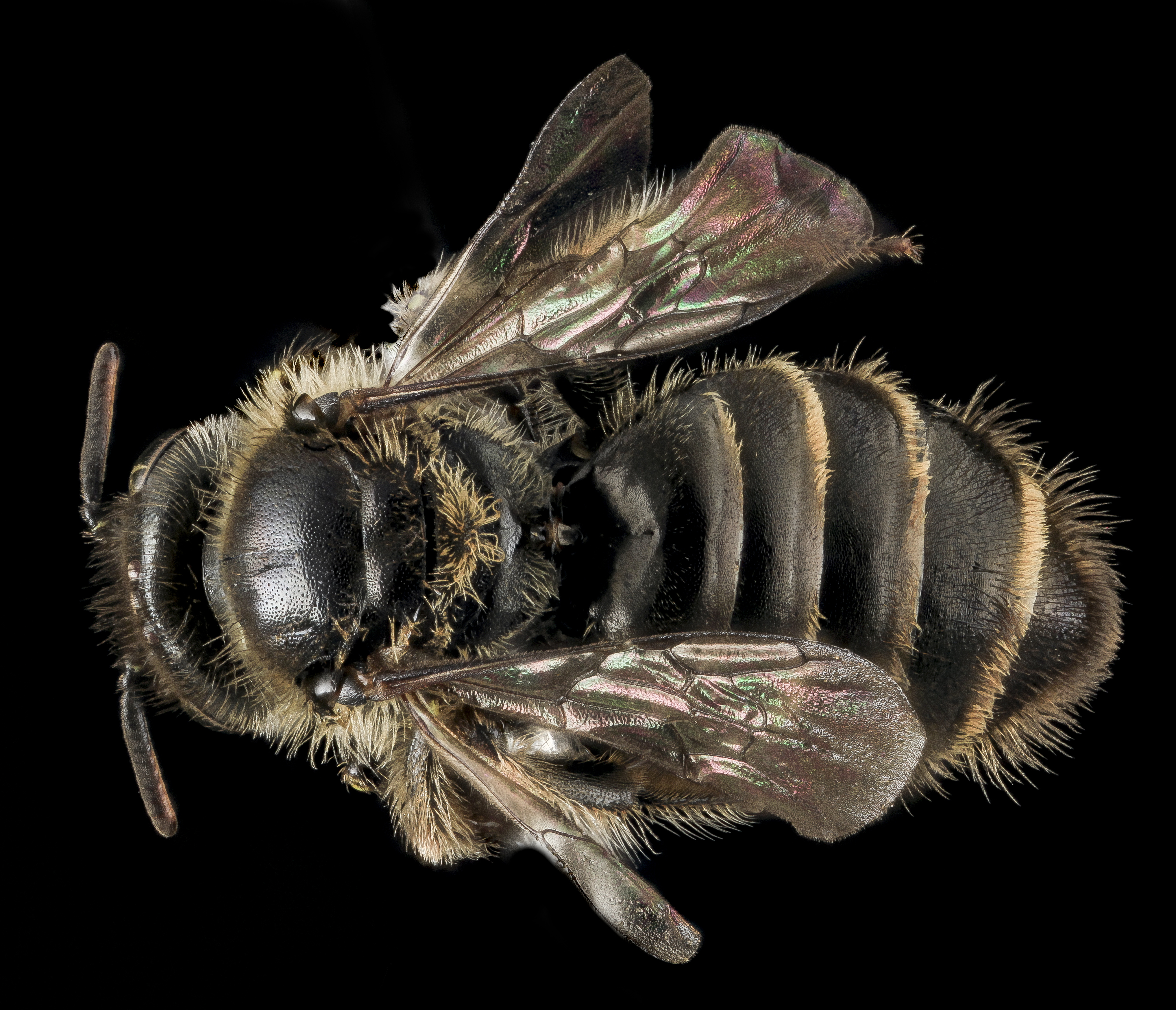 A common eastern bee that loves hard compacted soils found on playing fields and dirt piles